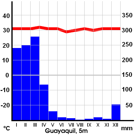 Rainfall and average max. temperature for Manaus, Brazil. °Celsius and millimeters. Software: Data